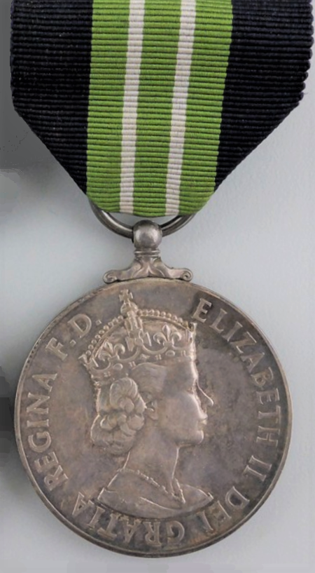 Long service award for Special Constabulary in British colonies and Overseas Territories.